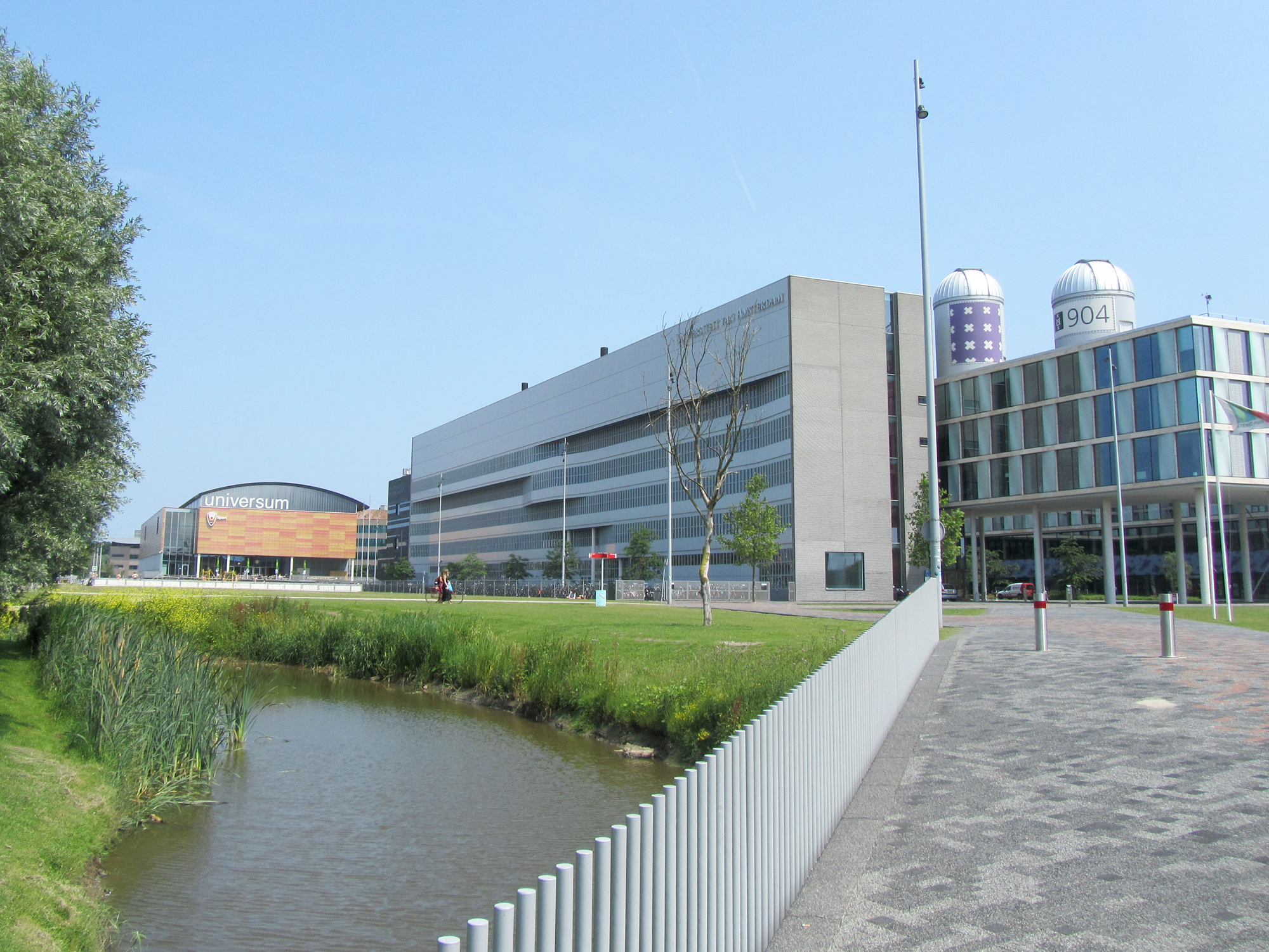 The Science Park campus of the University of Amsterdam